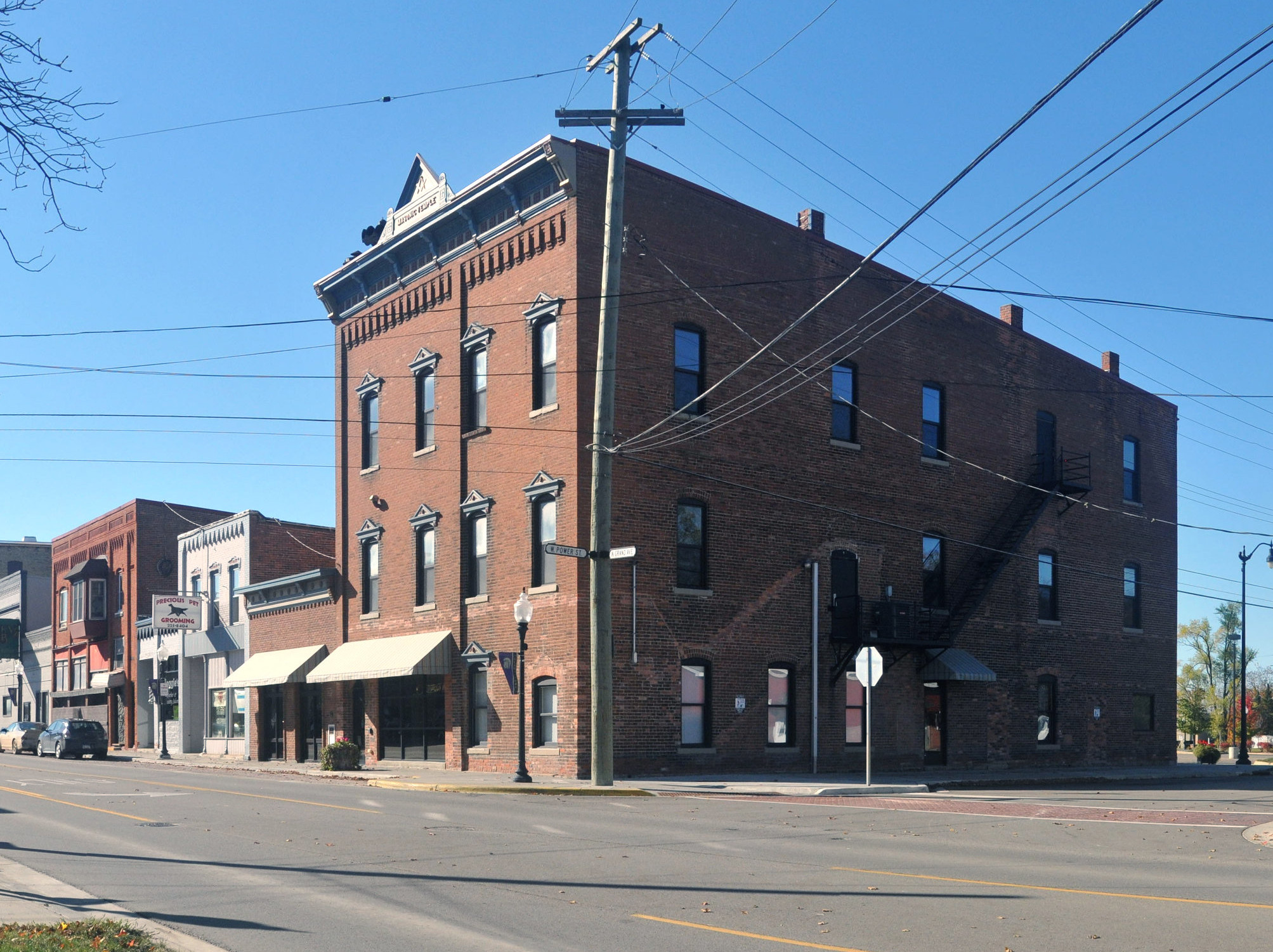 Handy Township Offices (used to be the Fire Hall), Fowlerville, MI. When the building first opened in 1898, it housed the Fire Department on the first floor, the Opera House on the second floor and the third floor was owned by the Free & Accepted Masons. Later, it would be a home to the Fowlerville Village Offices and finally becoming the Handy Township Offices as it is today (2016).